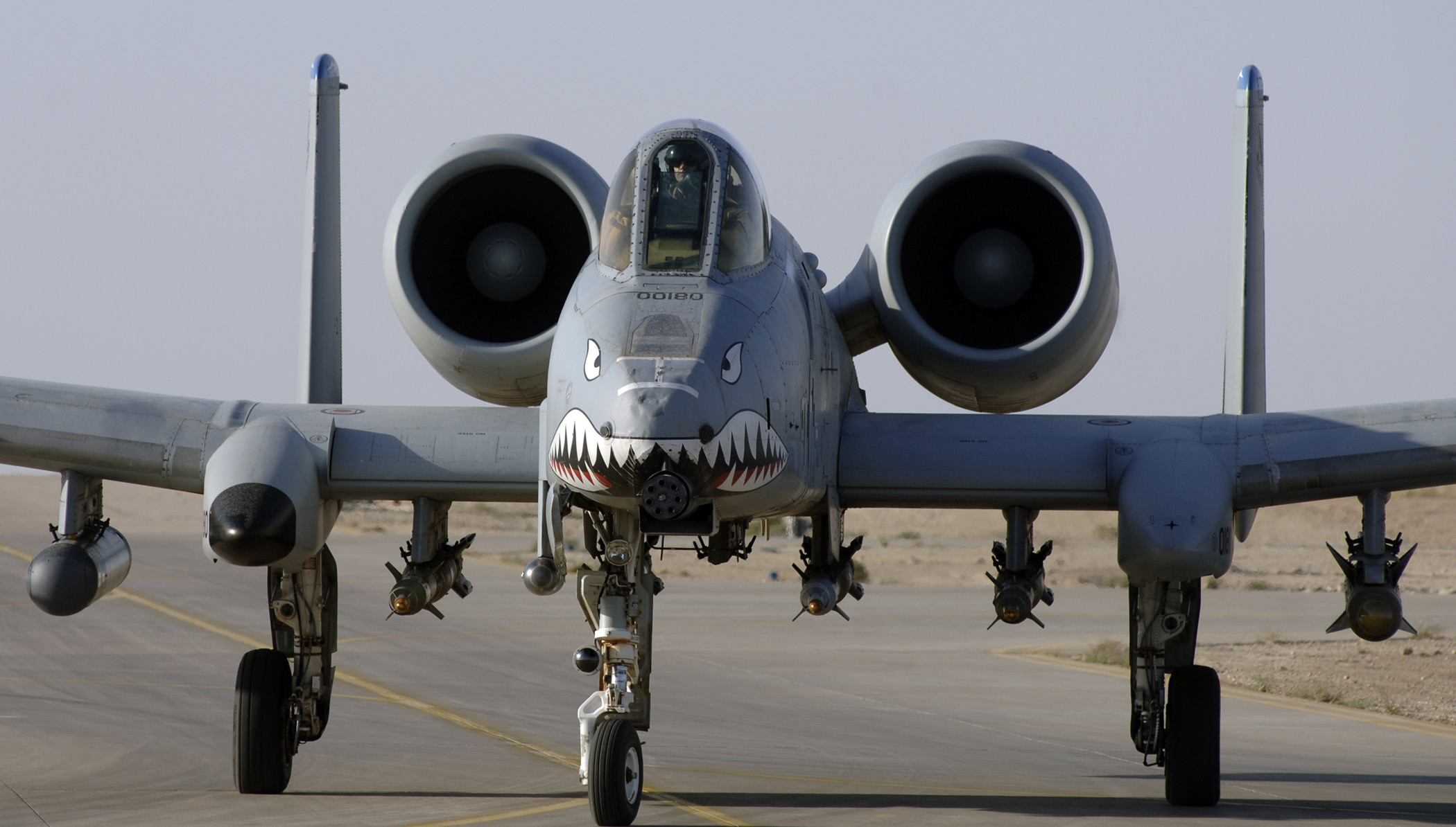 An A-10 Thunderbolt II prepares to take off from a Southwest Asia air base to provide close-air support to ground troops. A-10s have excellent maneuverability at low air speeds and altitude and are highly accurate weapons-delivery platforms.